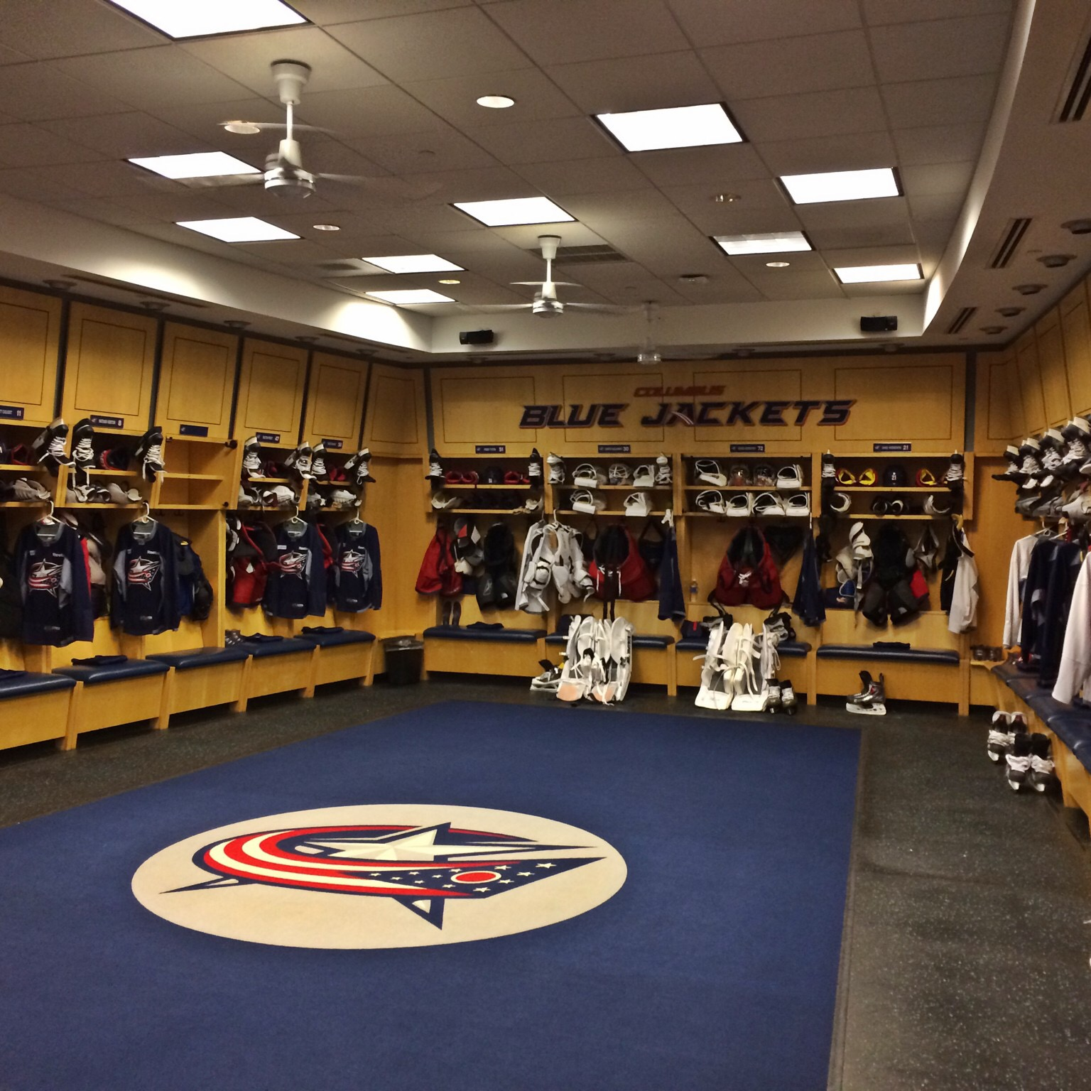 Blue Jackets locker room at Nationwide Arena